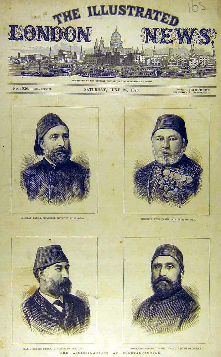 Four targets of Cerkes Khasan, top row: Midhat Pasha (survived), Husein Avni Pasha (killed), Halil Pasha (survived), Rashid Pasha (killed). The assassination took place 15-16 June 1876, in revenge for demotion and alleged murder of sultan Abdul Aziz.